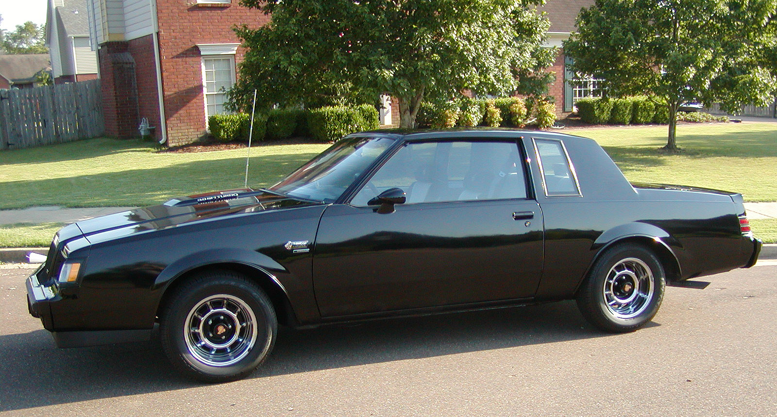 1987 Buick Regal Grand National (Author: Greg Friend, Source: self)